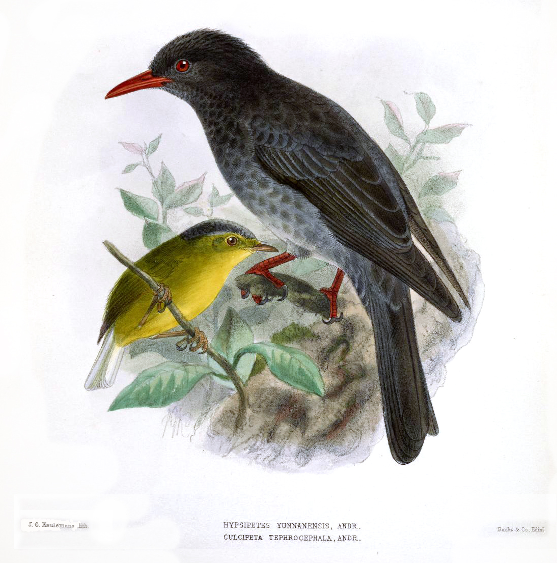 Hypsipetes yunnanensis & Culcipeta tephrocephala